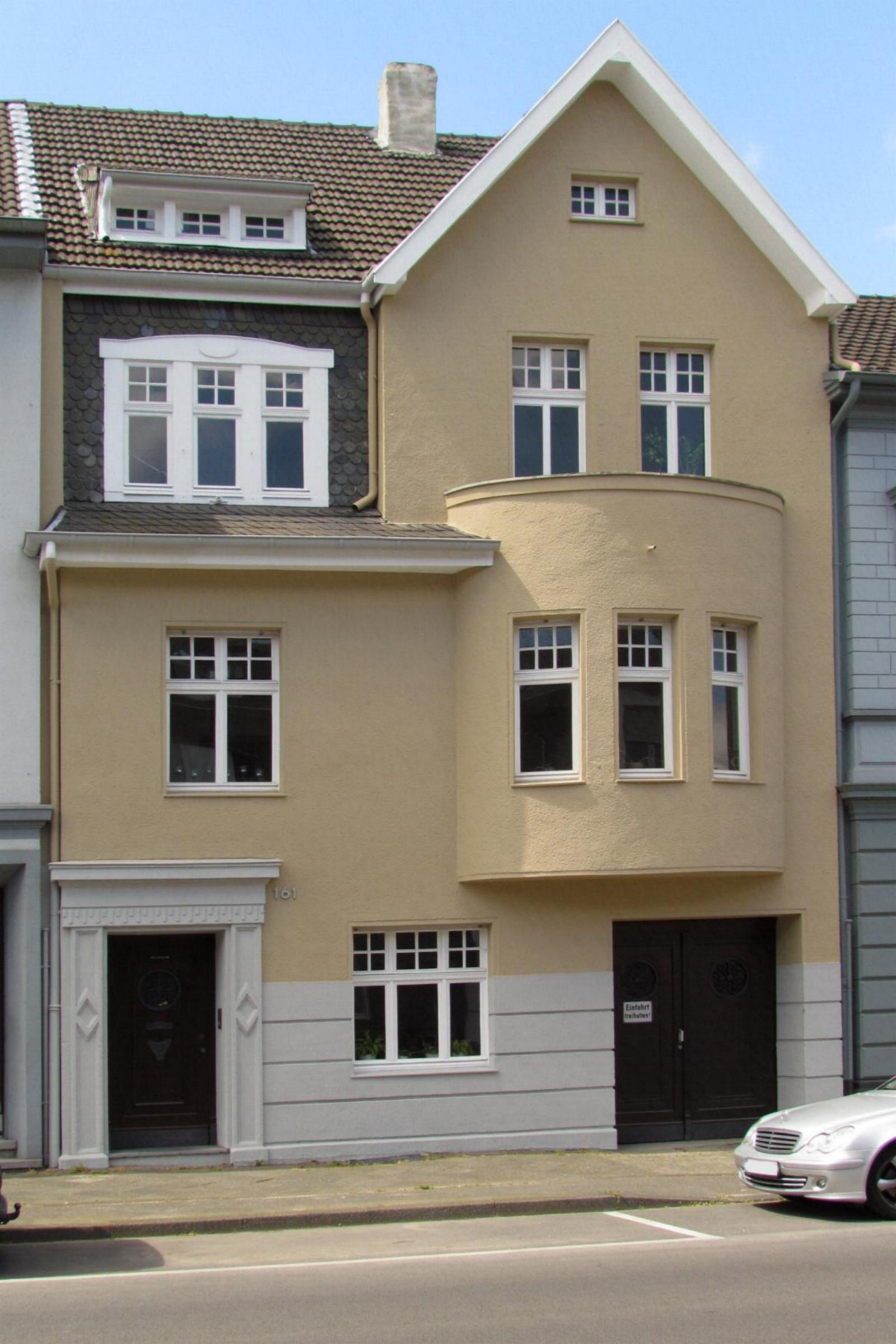 This is a photograph of an architectural monument. 033